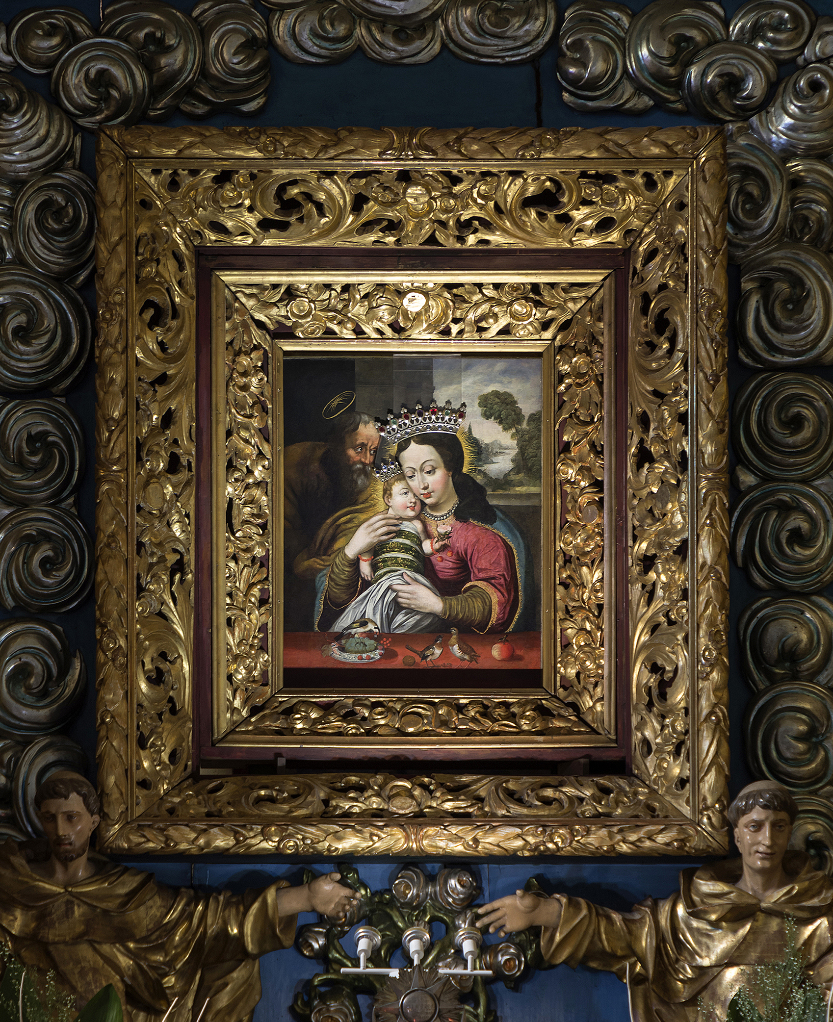 Church of the Assumption in Tarnobrzeg, paiting of Dzikowska Our Lady Ta fotografia przedstawia zabytek wpisany do rejestru zabytków pod numerem ID 632593